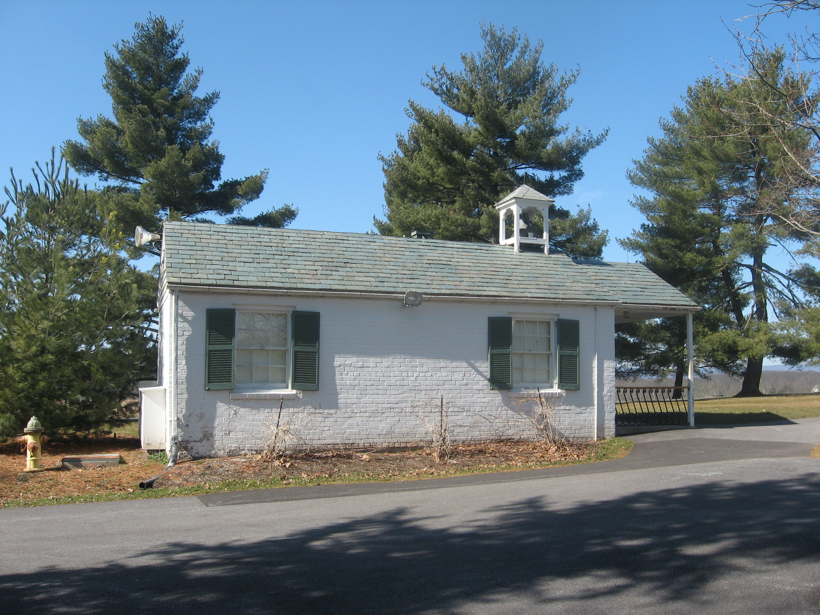 Eisenhower National Historic Site